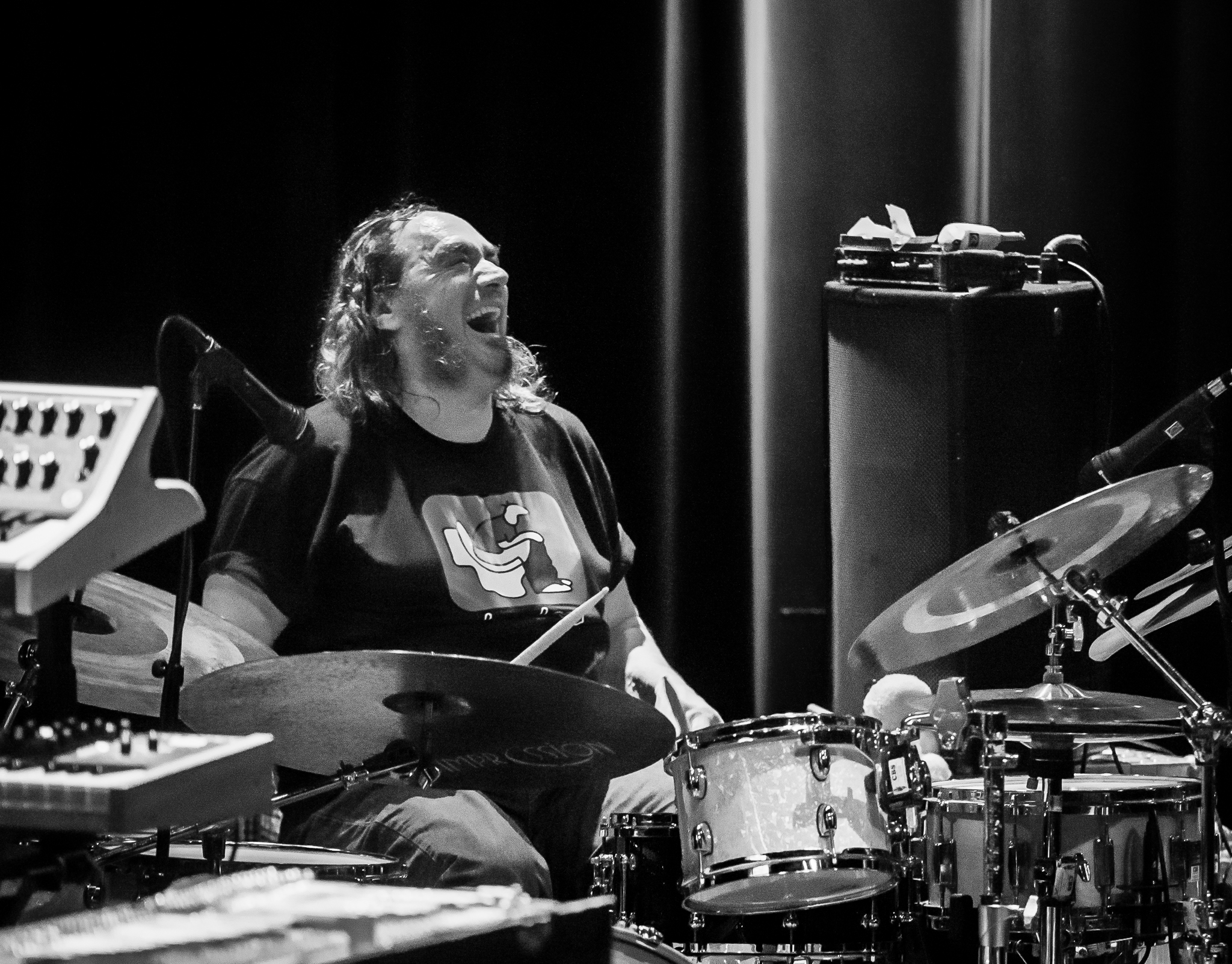 Paolo Vinaccia performing at Canal Street music festival, Arendal Norway, 2015. Photo: Birgit Fostervold.